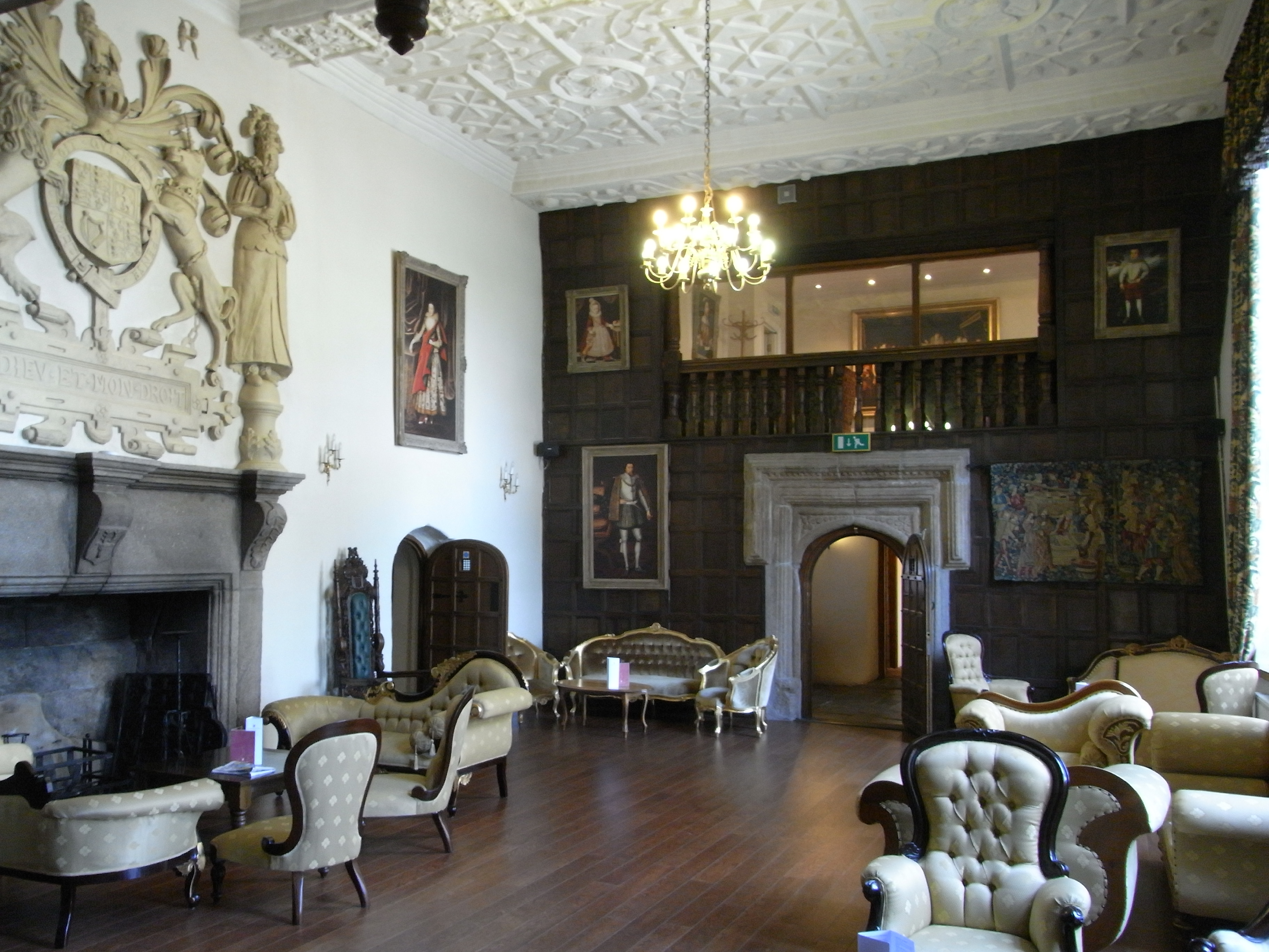 The Great Hall, Boringdon Hall, Plympton, Devon, looking eastwards The stone doorway now in the centre of what would originally have been the screens passage was moved from the SW room of the house. The woodwork, floor and decorative plaster ceiling are all modern; the pictures are photographic reproductions. The Great Hall however retains its original grand proportions and is lit by two double-height windows on the south side